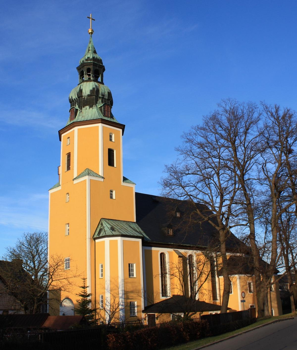 Scheibenberg church from SW